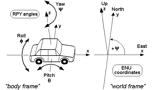 Roll-pitch-yaw angles of cars and other land based vehicles